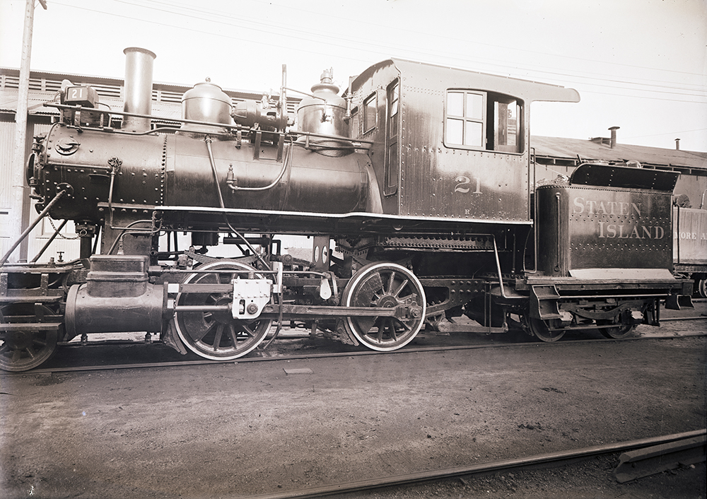 Title: Staten Island Rapid Transit, No. 21 Creator: Unknown Date: no date Physical Description: 1 negative: glass plate, black and white; 13 x 18 cm File: ag1982_0212_048_38_sm_opt.jpg Rights: Please cite DeGolyer Library, Southern Methodist University when using this file. A high-resolution version of this file may be obtained for a fee. For details see the web page. For other information, . For more information, View Railroads: Photographs, Manuscripts, and Imprints